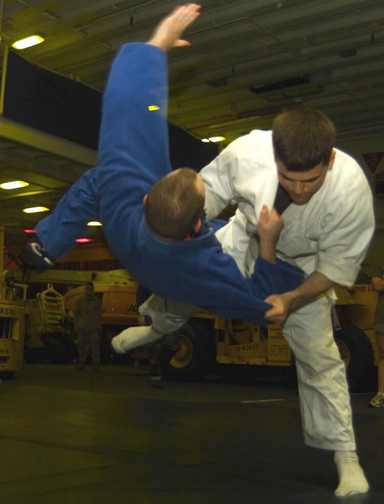 An Osoto gari throw in Judo; edited to reduce size.